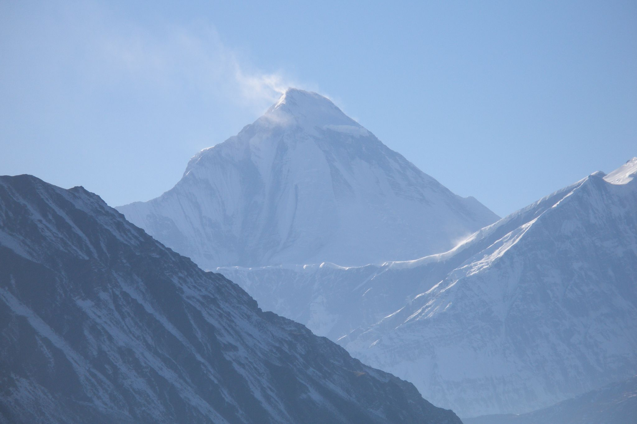 Dhaulagri I (8167 m) from north east. Southeast ridge on the left, north west ridge on the right. East face, northeast ridge (standard route) and north face between them.